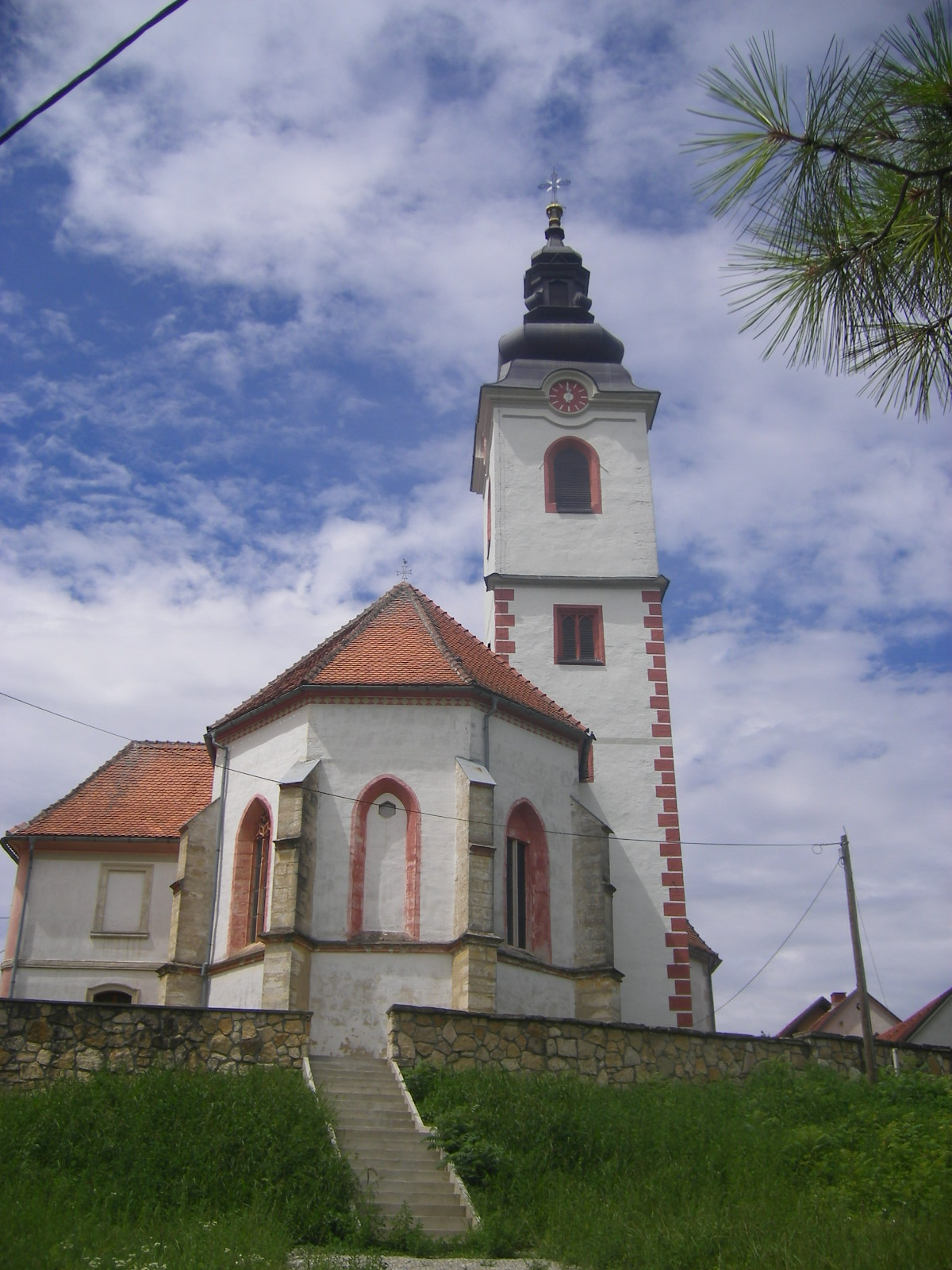 St. Rupert's Church in Spodnja Voličina (Municipality of Lenart, northeastern Slovenia)